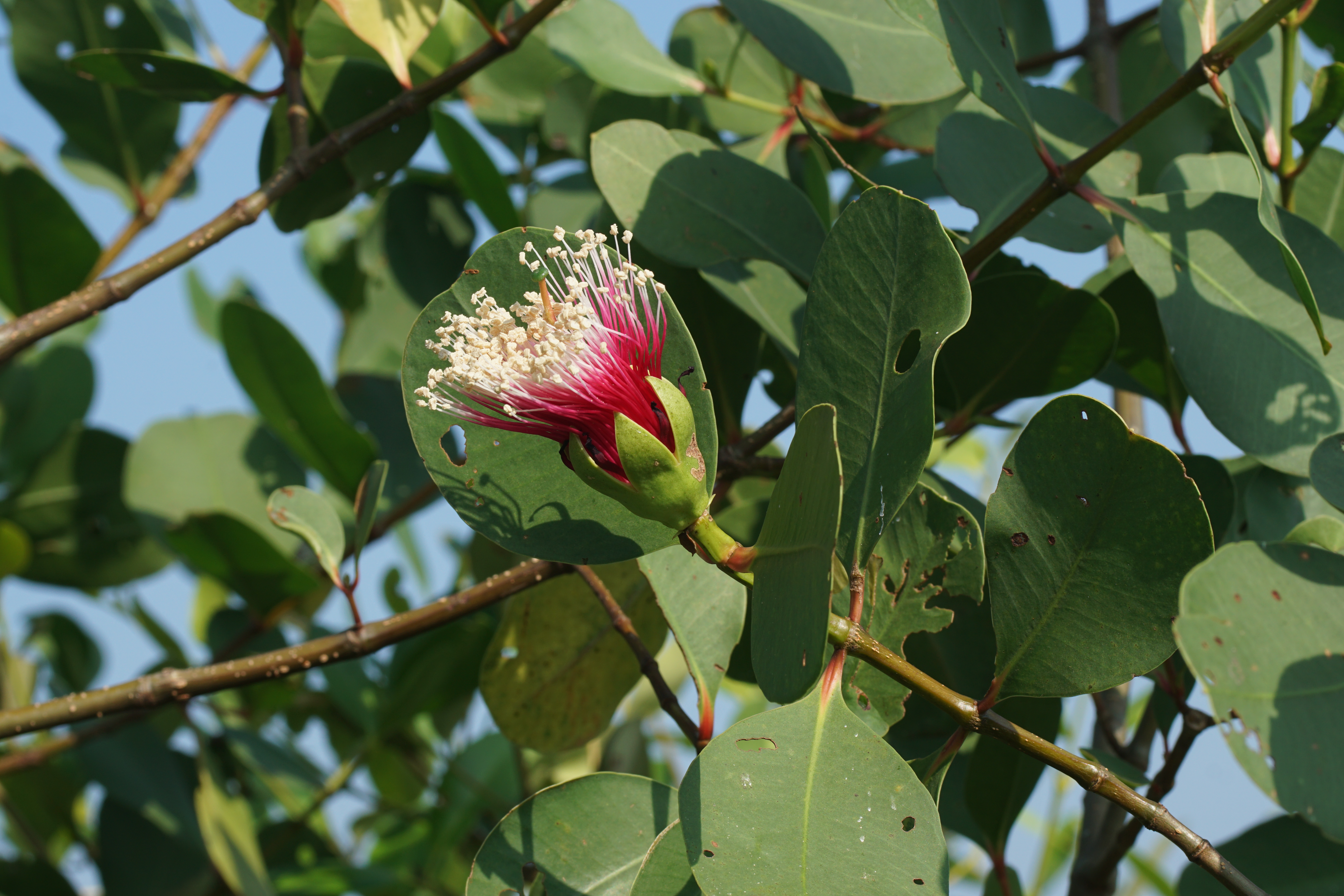 The Mangrove apple (Sonneratia alba) is the most widespread of the Mangrove trees (genus Sonneratia, family Lythraceae). They are found from East Africa through the Indian subcontinent, Southeast Asia, northern Australia, Borneo and Pacific Islands.